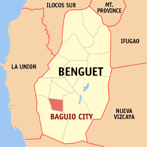 Map of Benguet showing the location of Baguio City